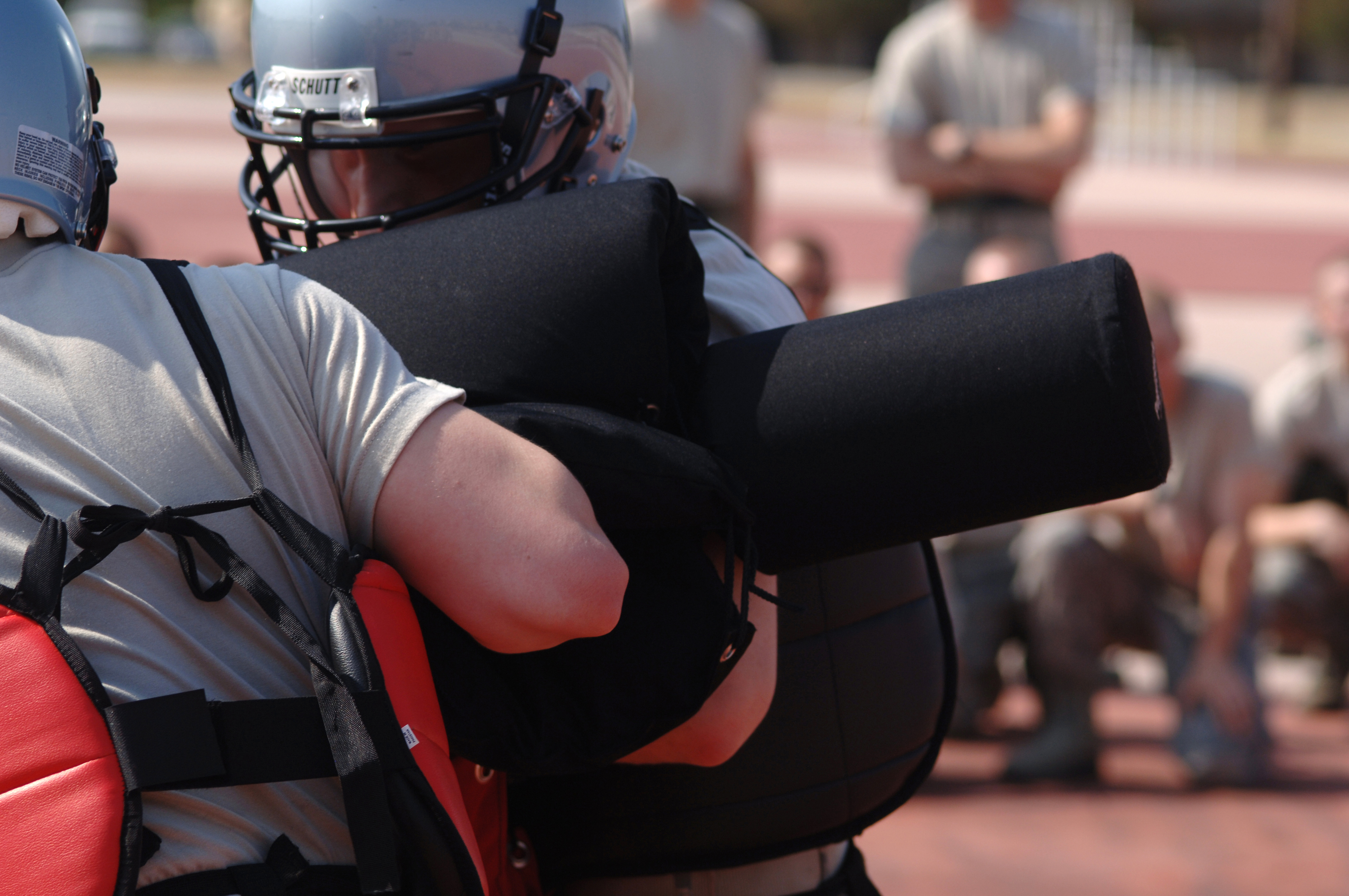 Trainees from the 326th Training Squadron face off in a pugil stick fighting match. The pugil stick fighting portion of Air Force Basic Military Training is held during the 5th week of training and helps teach basic self defense techniques on 29 April 2006.